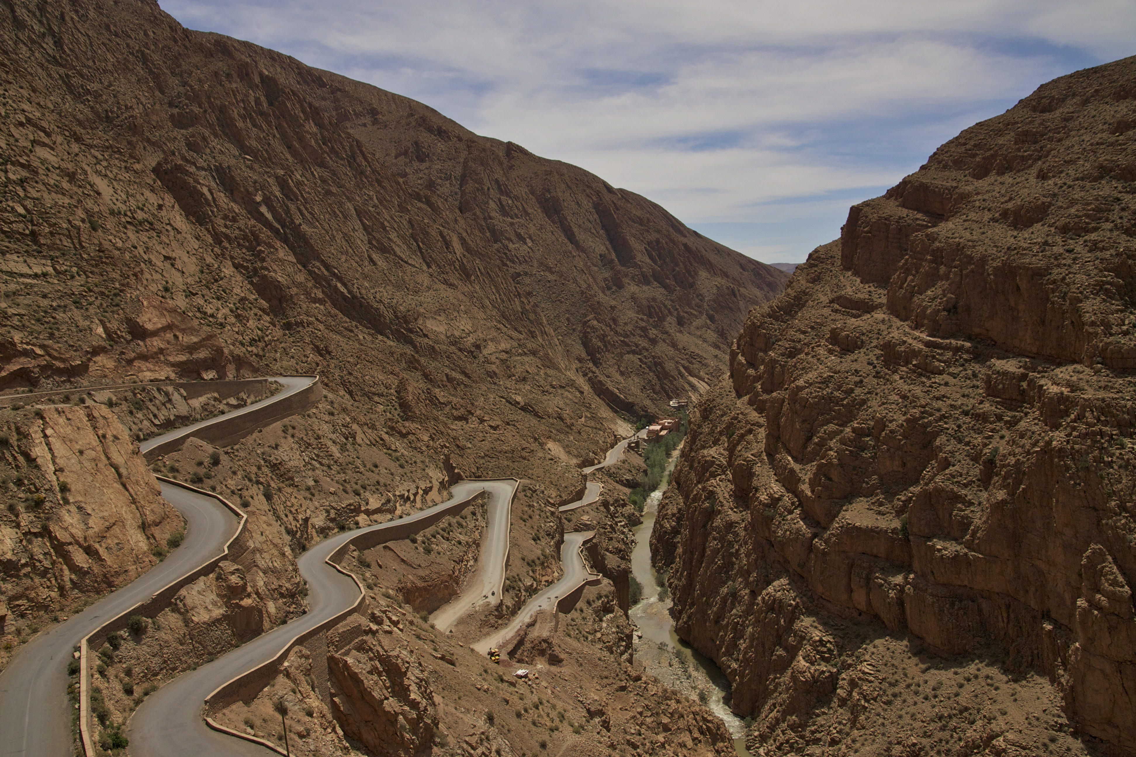 This is an image with the theme "Africa on the Move or Transport" from: Morocco